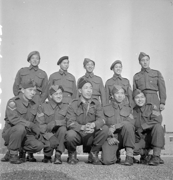 Chinese-Canadian soldiers from Vancouver, British Columbia, Canada, who served with the South East Asia Command (SEAC), awaiting repatriation to Canada, No.1 Repatriation Depot (Canadian Army Miscellaneous Units), Tweedsmuir Camp, Thursley, England, 27 November 1945